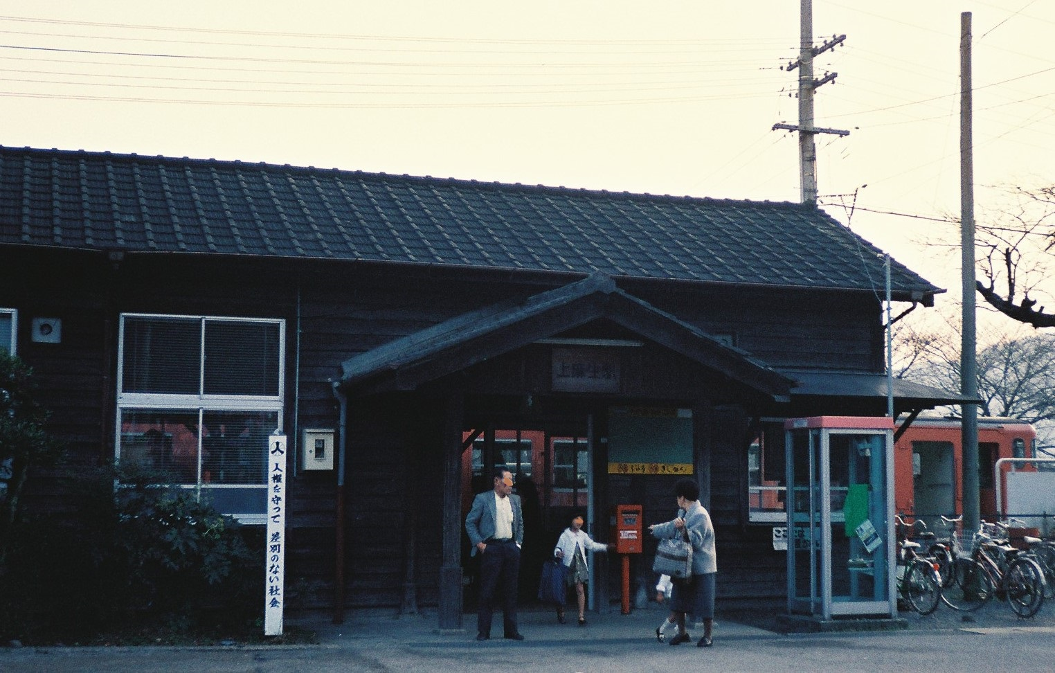 Kami-Aso Station in Gifu Prefecture, Japan